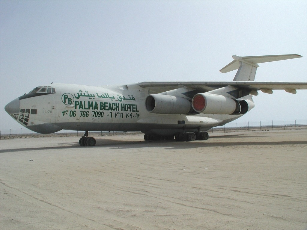 This is a retired IL-76 that was flown to Umm Al Quwain Aviation Club and landed here on a sand runway for the last time. (Don't mind the hotel advertisement on the fuselage). Former registrations: CCCP-86715, RA-86715, EL-RDT, 3D-RTT.